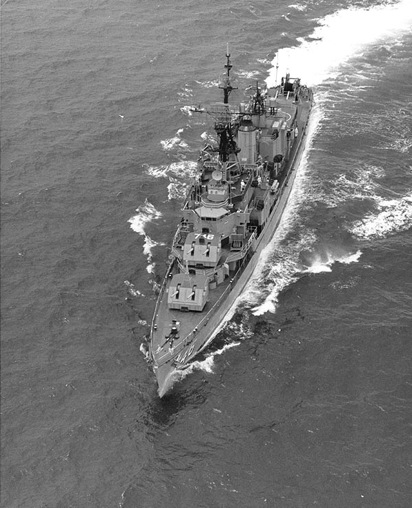 The U.S. Navy destroyer USS Taussig (DD-746) underway off the coast of Oahu, Hawaii (USA), on 10 May 1963.